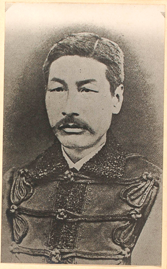 Photograph of Takeda Hayasaburo (1868).